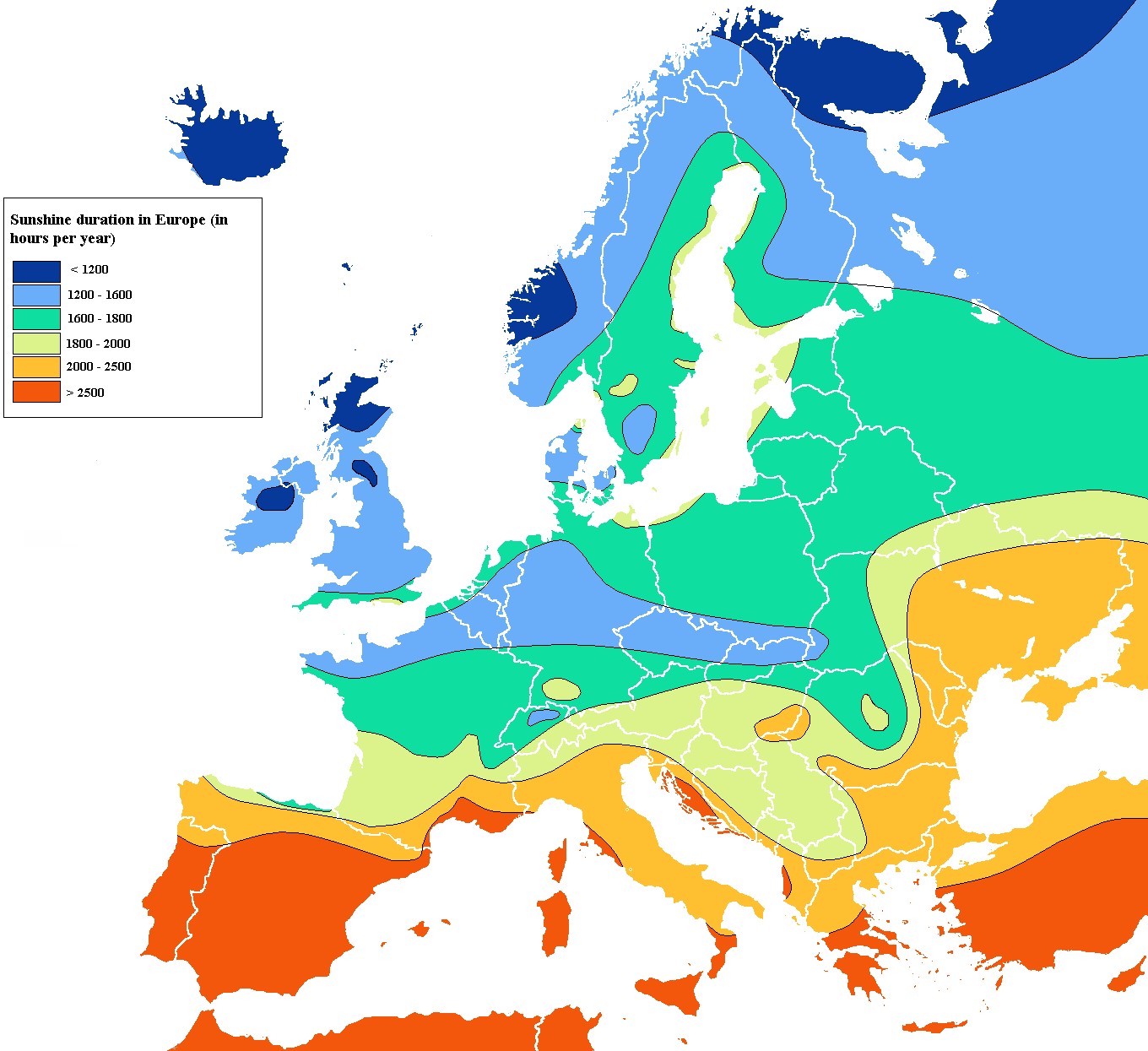 Simplified map of sunshine duration in Europe according to national data